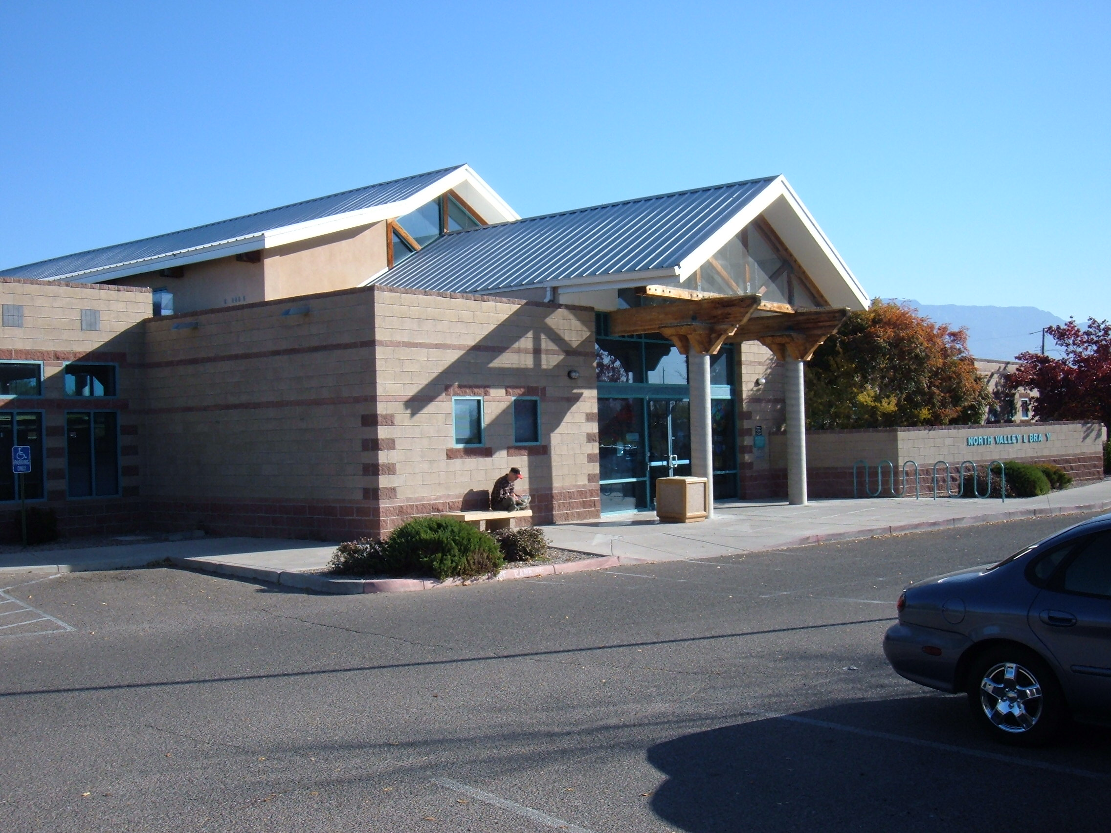 Entrance of the North Valley Library, a branch of the Albuquerque/Bernalillo County Library system. The building is at 7704 2nd Street NW in Albuquerque, New Mexico.